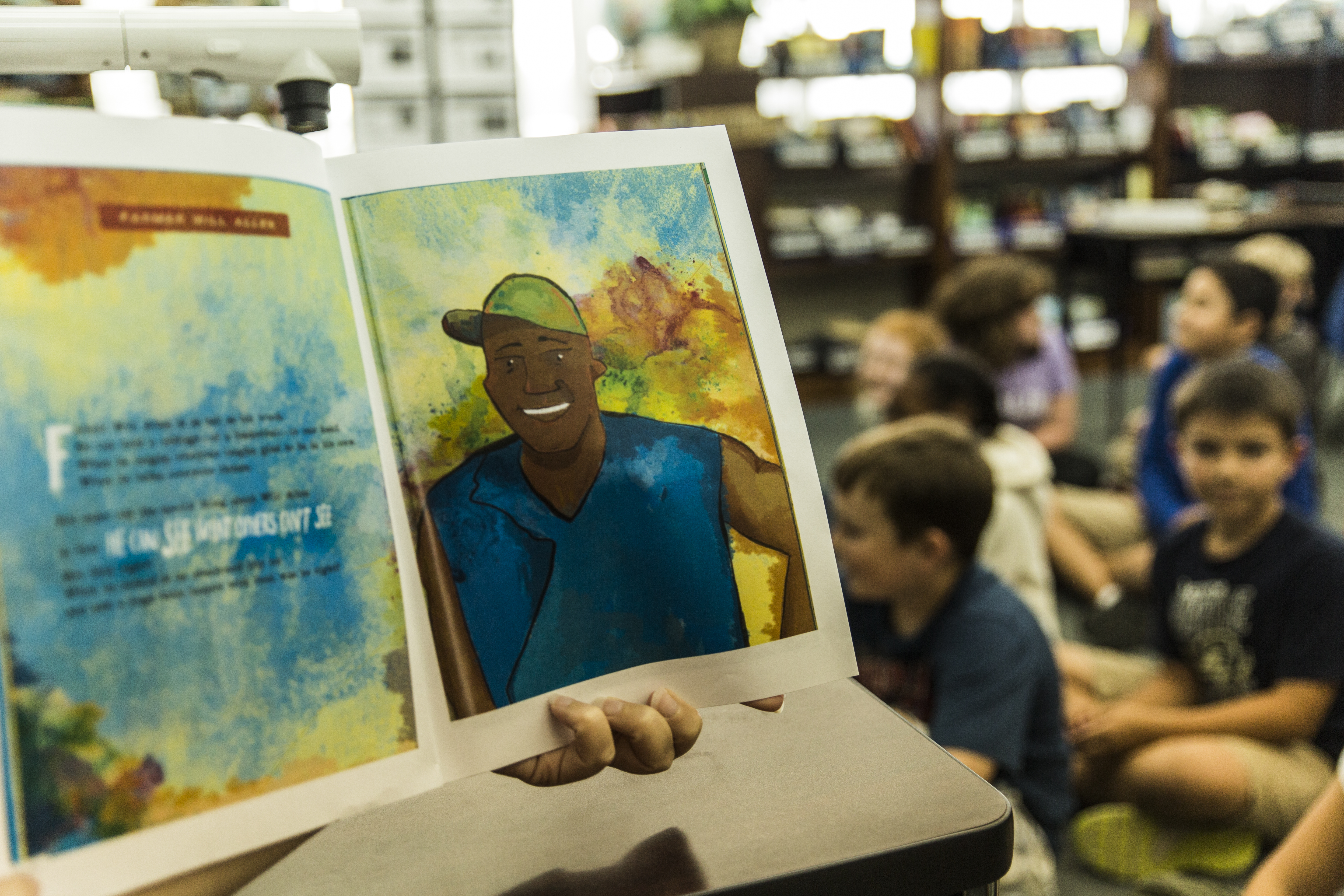 Matthew C. Perry Elementary teachers and adult volunteers took part in an official attempt to break a Guinness World Record aimed to raise awareness about literacy by reading to M.C. Perry’s 1st, 4th and 5th graders at Marine Corps Air Station Iwakuni, Japan, Oct. 19, 2015. By working across time zones and continents, Points of Light, the Barbara Bush Houston Literacy Foundation, Deloitte and hundreds of other organizations hope to read to the most children ever in a 24 hour period. Read Across the Globe is an event during this literacy-awareness week that brings the power of volunteers together to impact literacy in local communities. To help enhance student’s literacy, the official book selection for Read Across the Globe is “Farmer Will Allen and the Growing Table” by Jacqueline Briggs Martin, a story of how a former basketball star transformed an empty lot into a way to feed his community. (U.S. Marine Corps photo by Sgt. Antonio J. Rubio/Released) Unit: Marine Corps Air Station Iwakuni DVIDS Tags: Japan; USMC; MCAS Iwakuni; Iwakuni; Marines; Marine Corps Air Station Iwakuni; Deloitte; M.C. Perry Elementary; Matthew C. Perry; Points of Light; the Barbara Bush Houston Literacy Foundation; Read Across the Globe